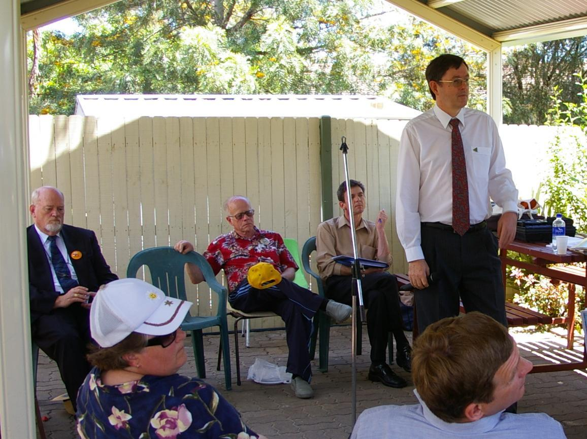 Candidates for the Federal Division of Chifley address electors at a public meeting during the 2007 campaign